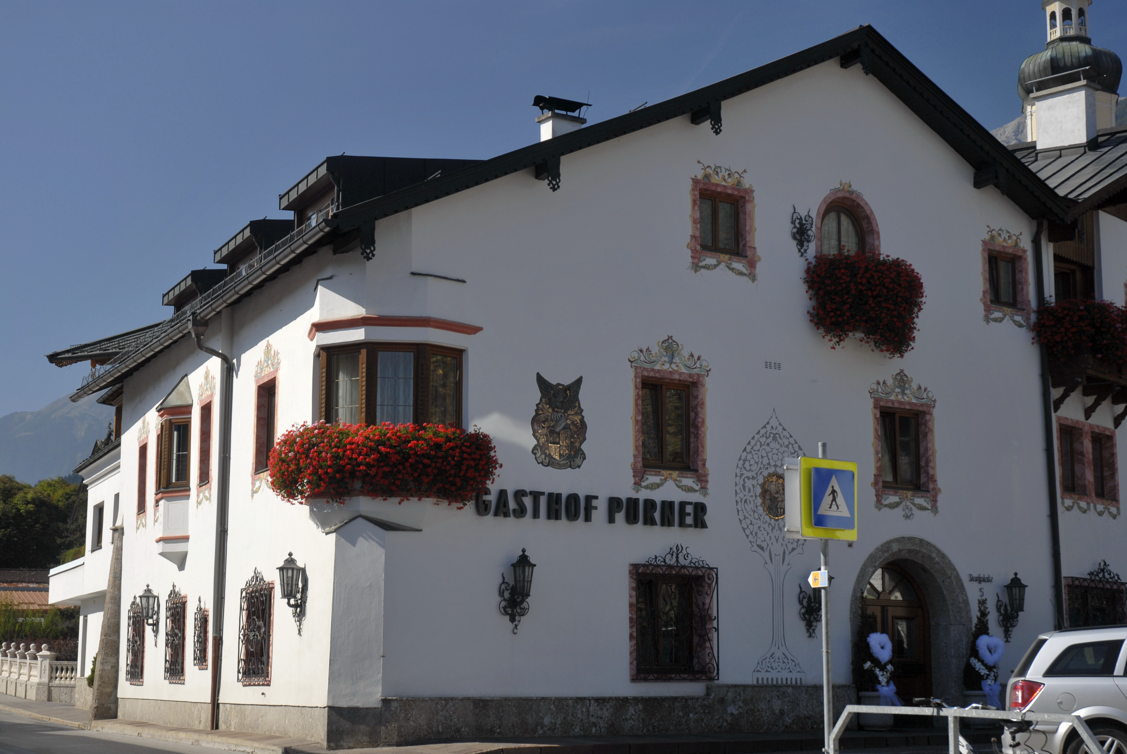 Thaur, Gasthof Purner